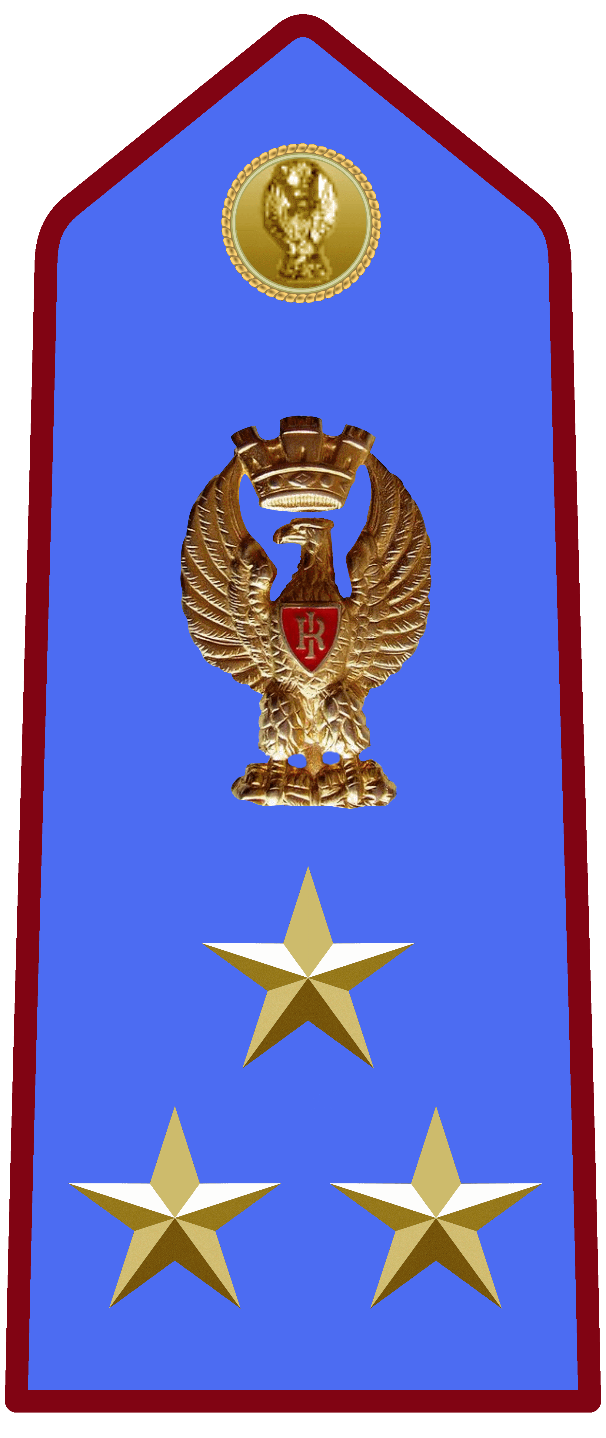 Rank insigna of "Commissario" of the Italian Police.